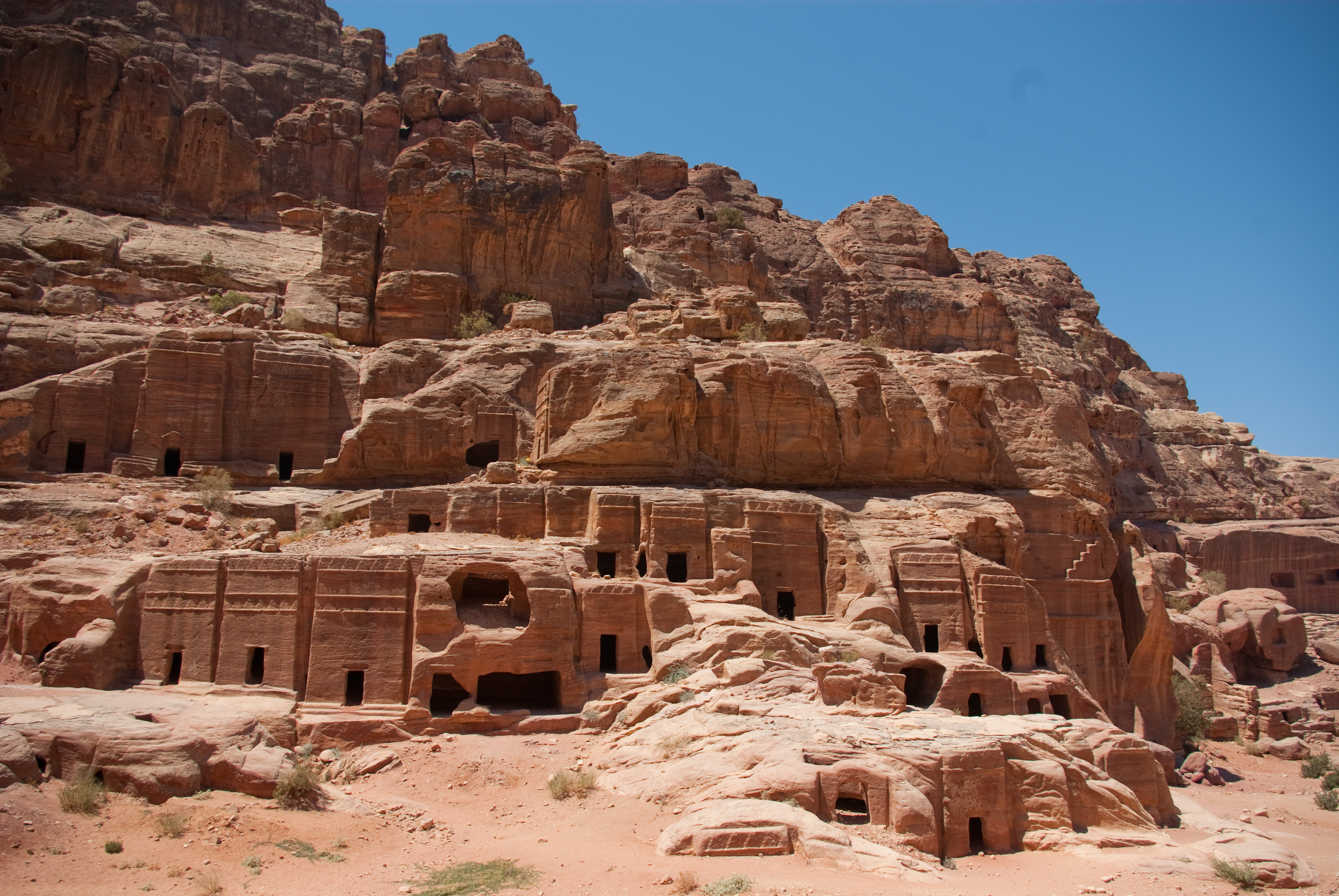 Tombs in petra